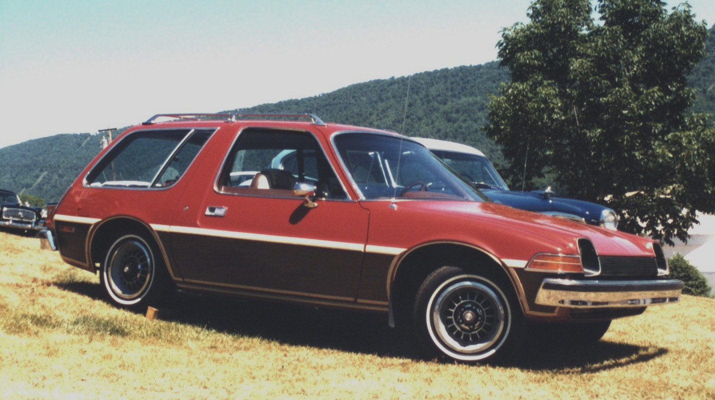 1977 AMC Pacer D/L 2-door station wagon - finished in "Firecracker Red" and optional "wood" trim (imitation "woodie"). This was the first model year for the station wagon model Pacer made by American Motors Corporation. Picture was taken at an automobile gathering in "Nashville" - PA.